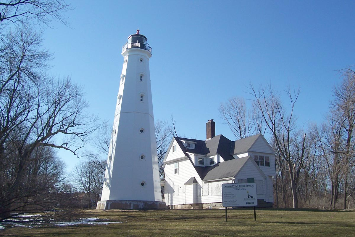 Copyright © 2006 Sulfur The historic North Point Lighthouse is located along the bluffs of Lake Park in Milwaukee, Wisconsin.